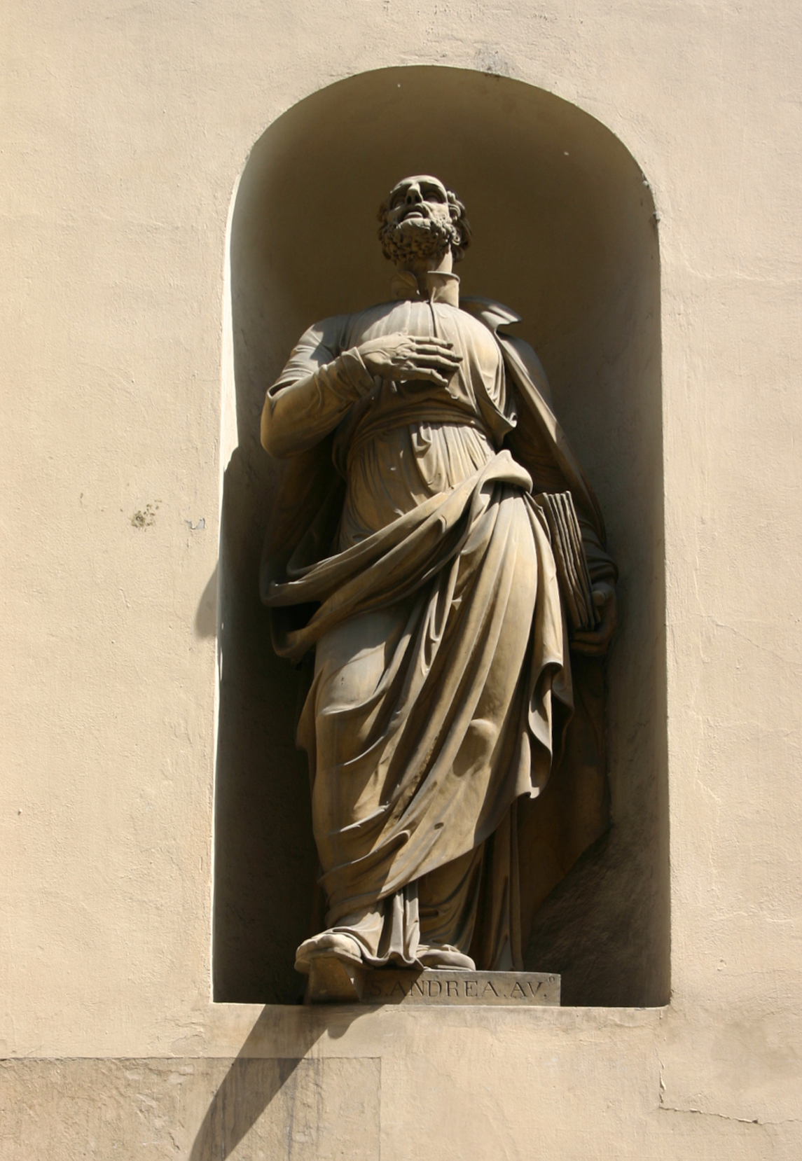 Saint Andrew Avellino. Statue from the facade of Sant'Antonio Abate church in Milan, Italy. It was designed by Giacomo Tazzini in 1832. Picture by Giovanni Dall'Orto, May 20 2007.